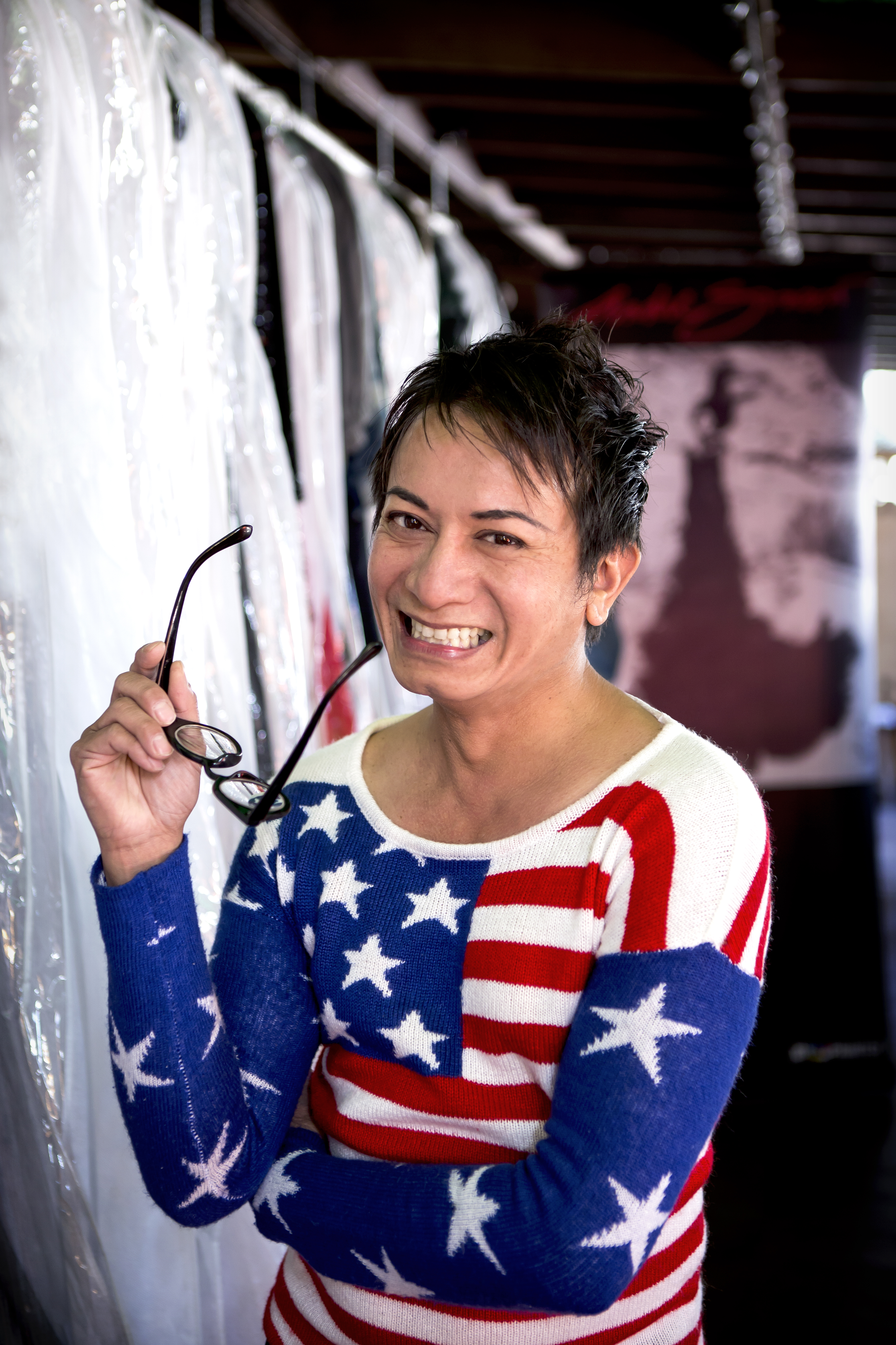 Potrait of Trump Dress Designer Andre Soriano